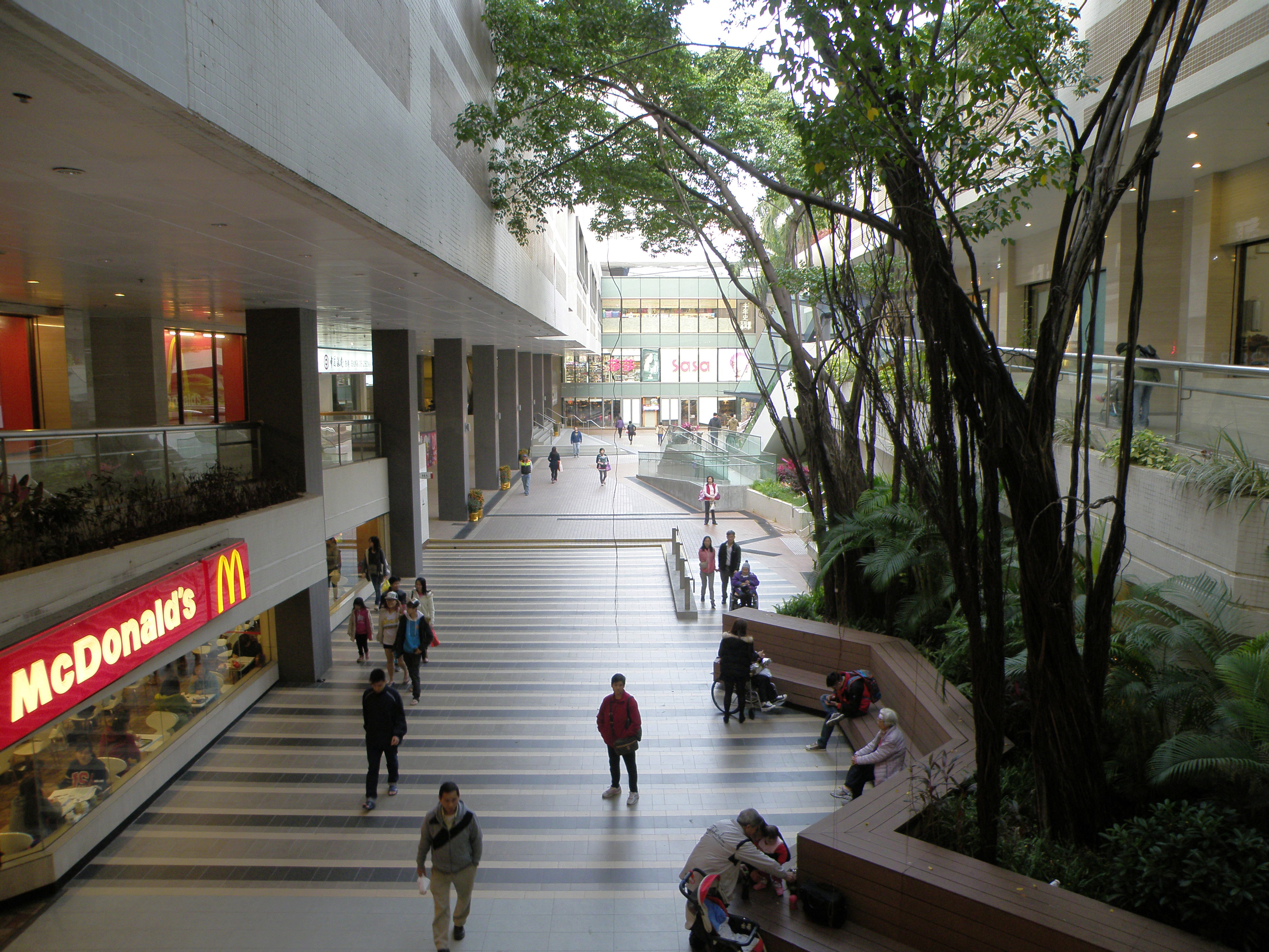 Leung King Plaza in Tuen Mun, Hong Kong.